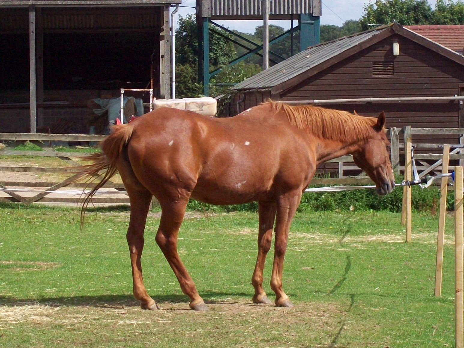 Manor Farm, Chesfield, Hertfordshire, Chestnut horse with Birdcatcherspots